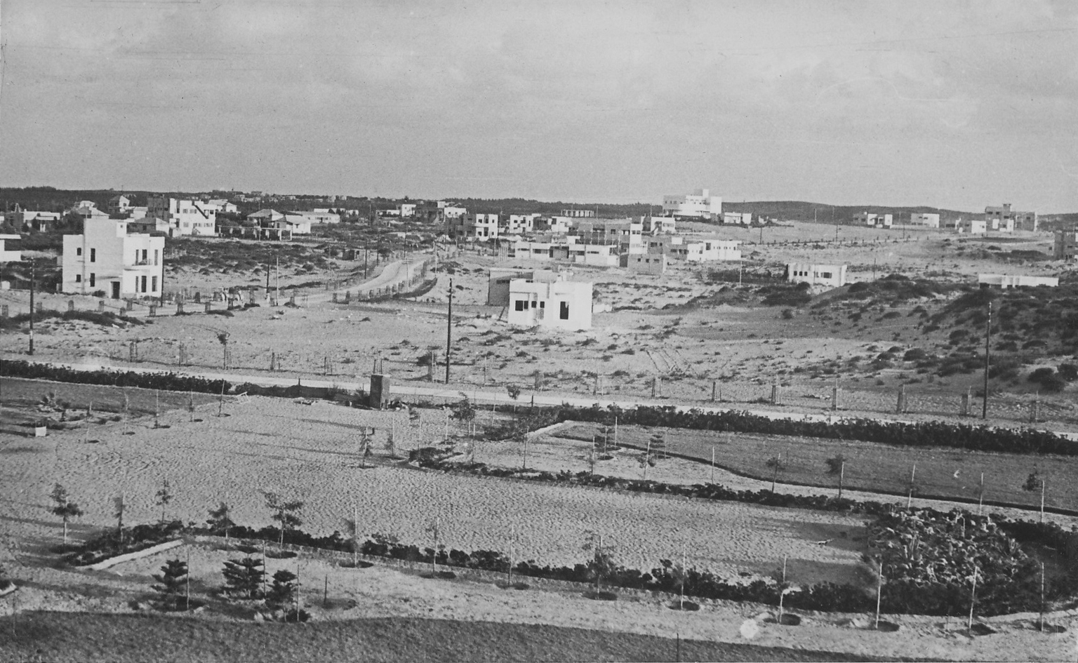 Nathanya 1930s